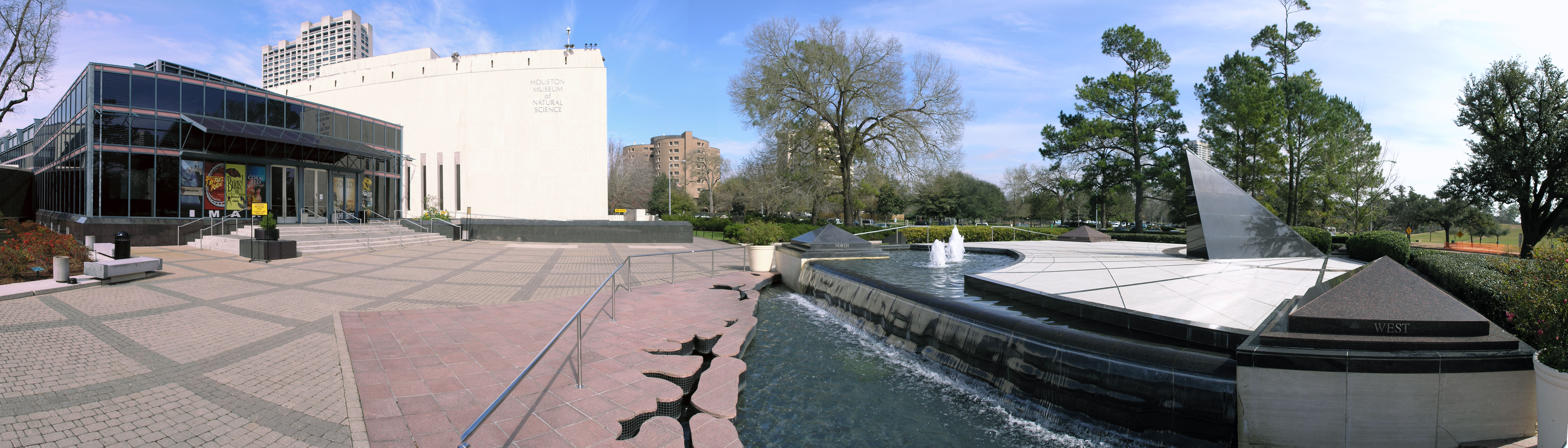 The entrance to the Houston Museum of Natural Science, to the right a fountain with a sun dial